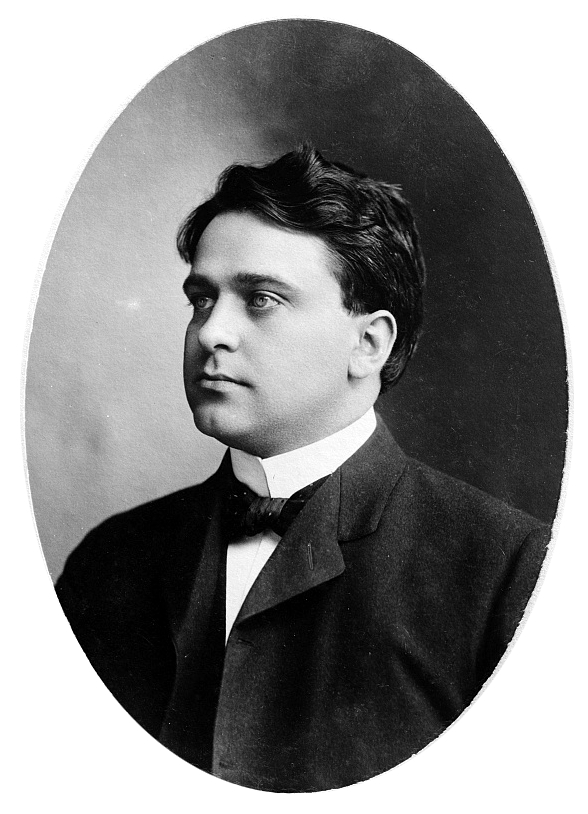 Portrait of William W. Wilson, Library of Congress